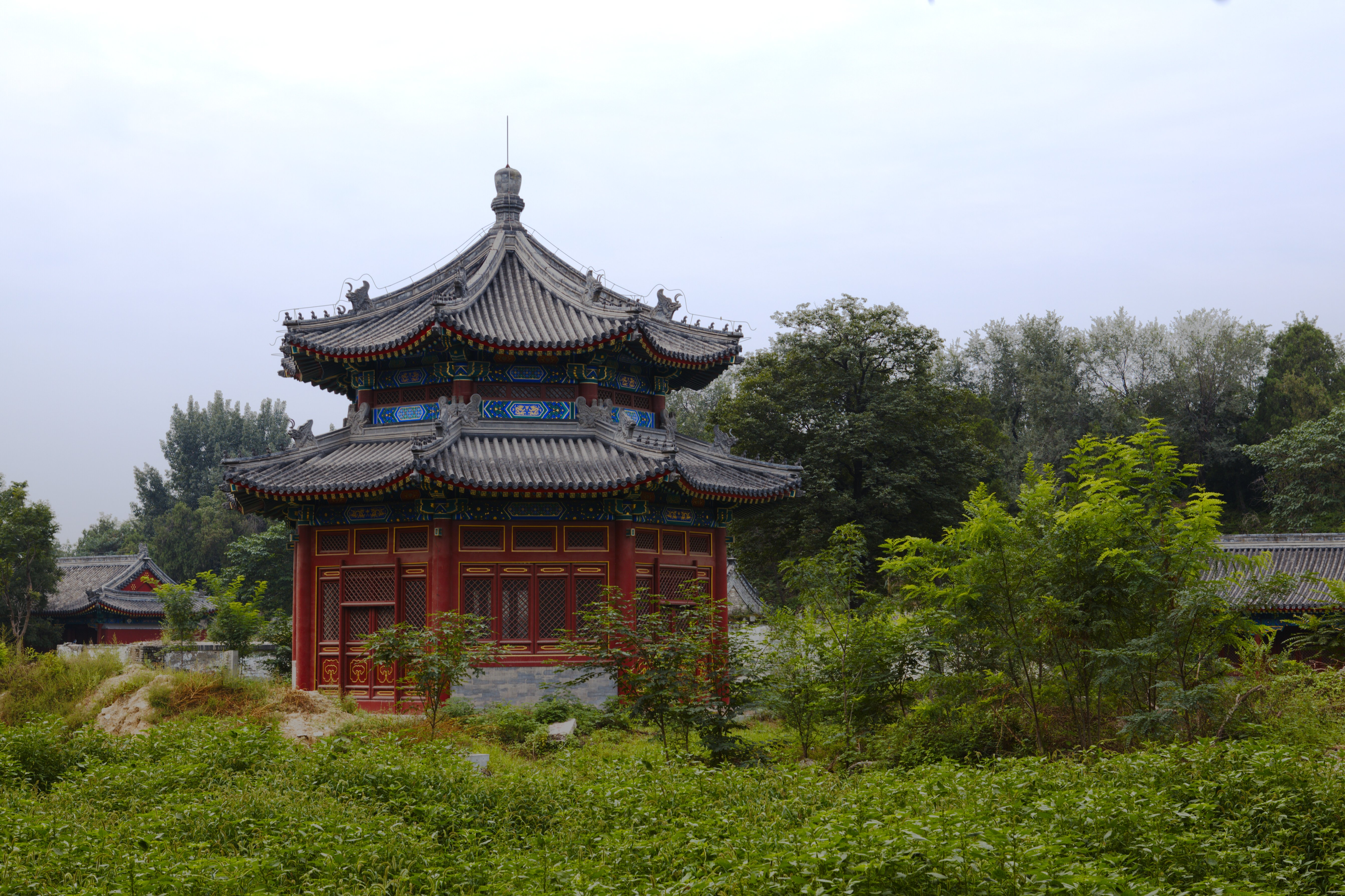 The rebuilt (circa 2000) Wen Shu Pavillion of Zheng Jue Temple of Old Summer Palace, Beijing, China.